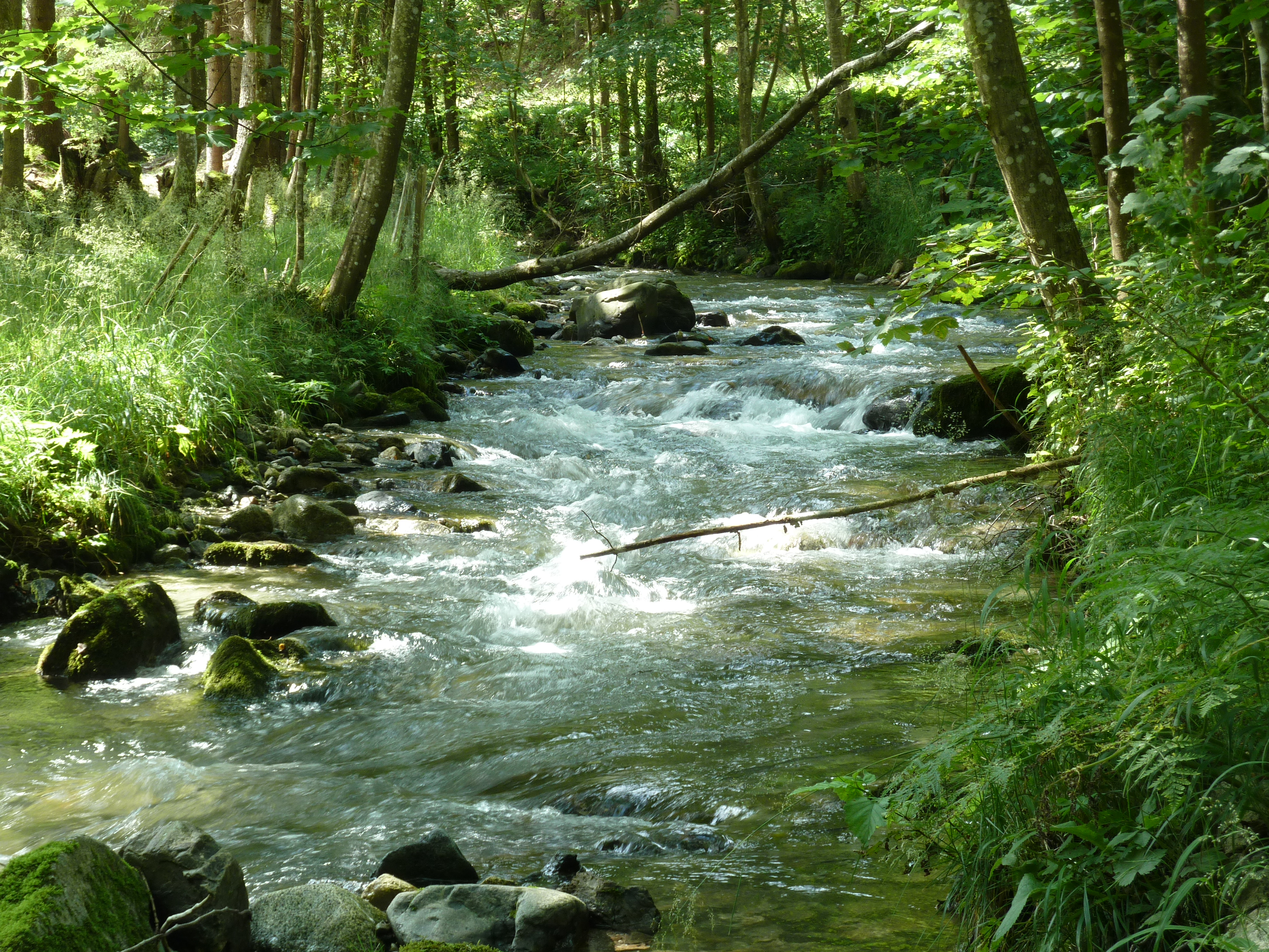 Meža River before the confluence with Topla brook